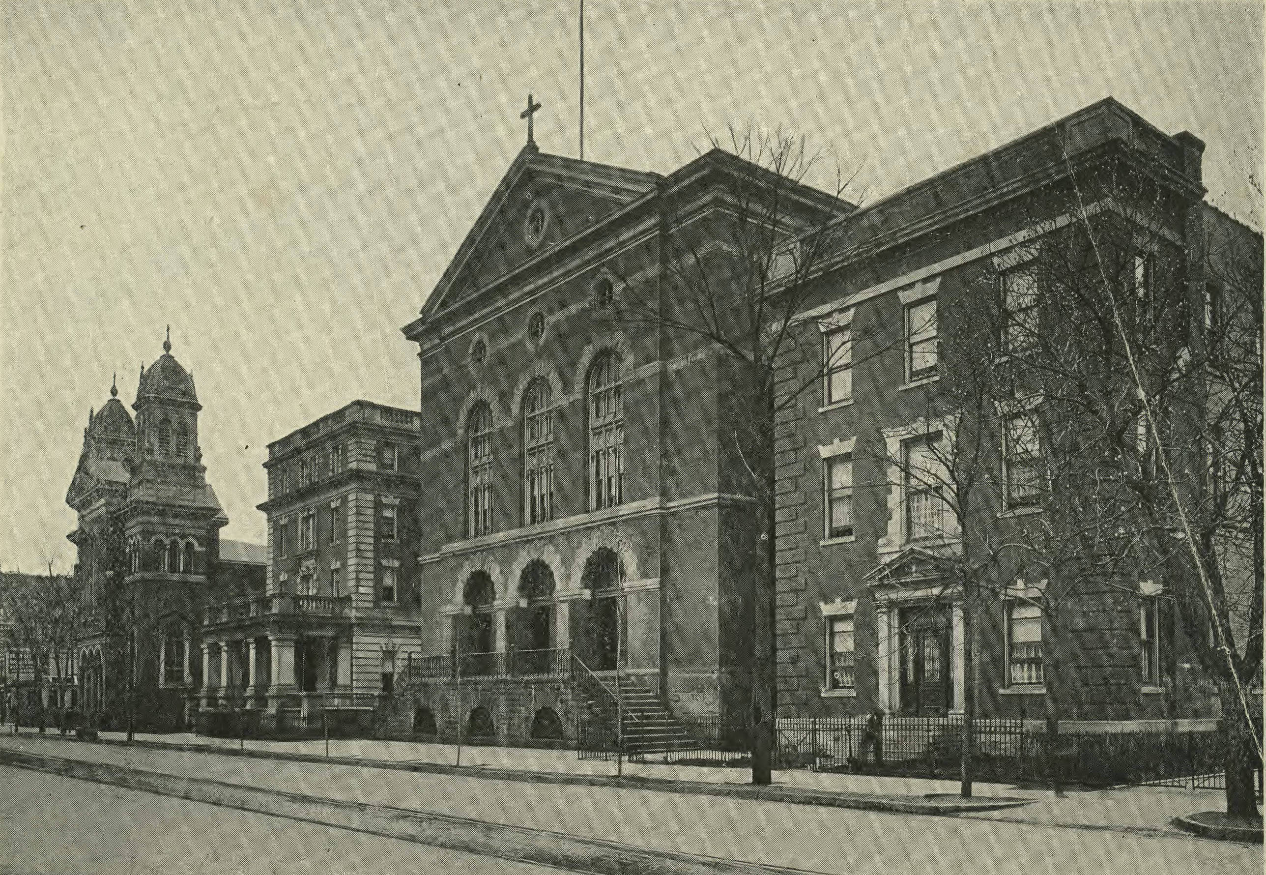 Campus of St. Thomas College (later known as the University of Scranton), in Scranton, Pennsylvania. From left to right: St. Peter's Cathedral, rectory, Old Main, brothers' house (La Salle Hall).